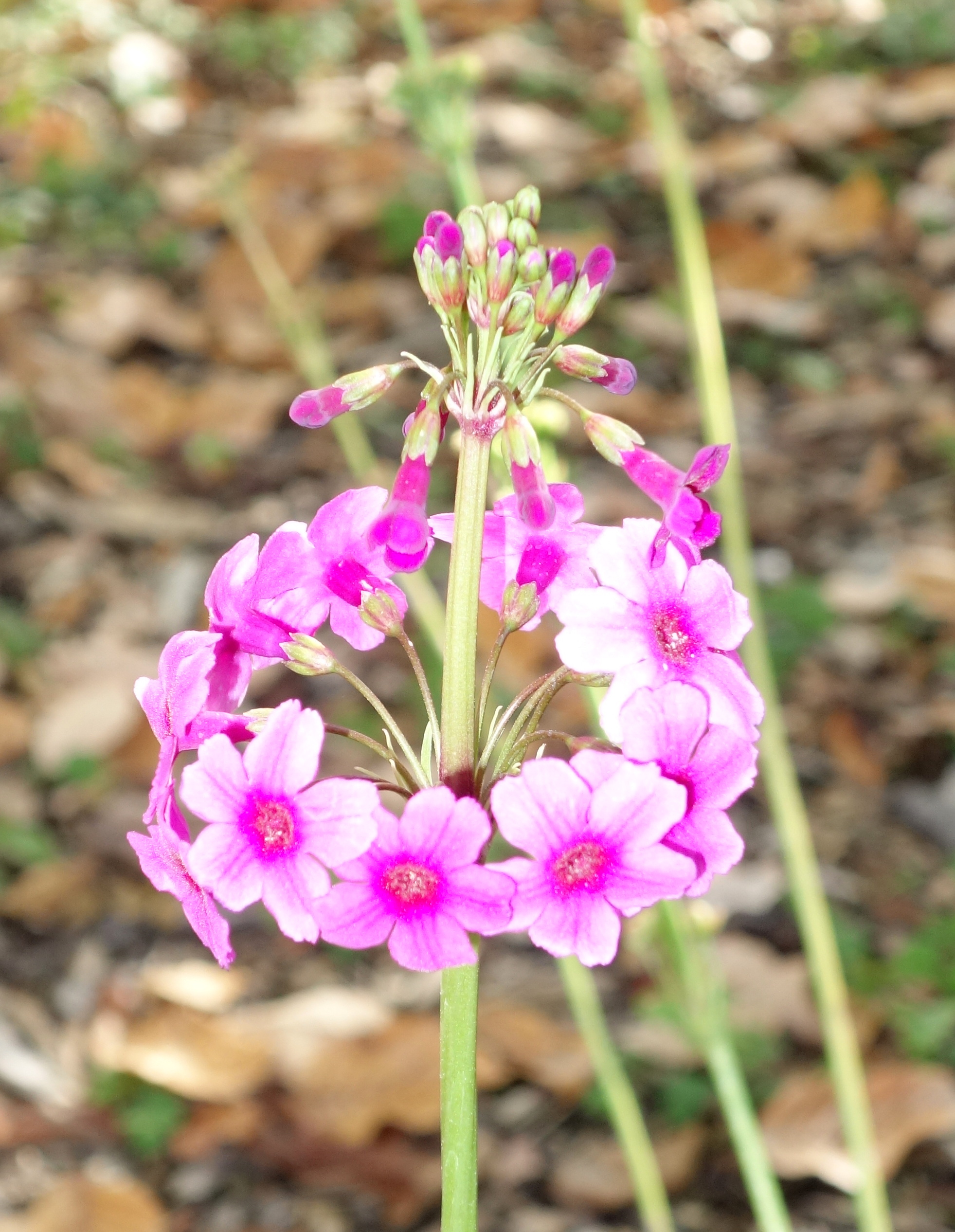 Botanical specimen in Quarryhill Botanical Garden, Glen Ellen, California, USA.